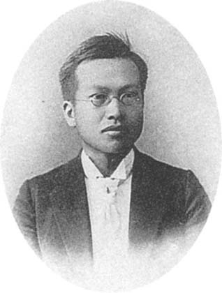 Y. Watanabe, Professor of Mining and Metallurgy.